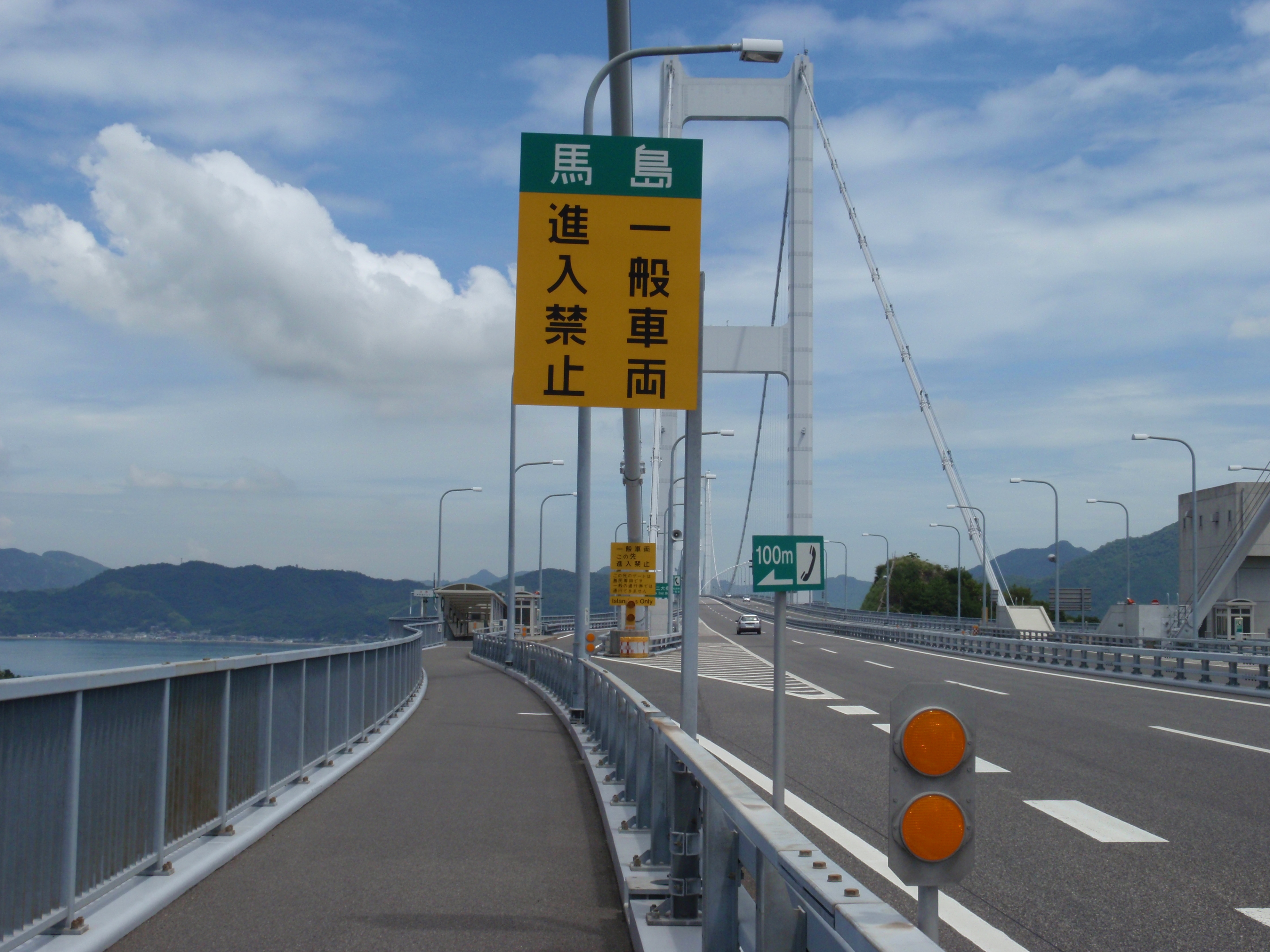 Warning sign ("Umashima: No entry to ordinary vehicles") at Umashima Interchange